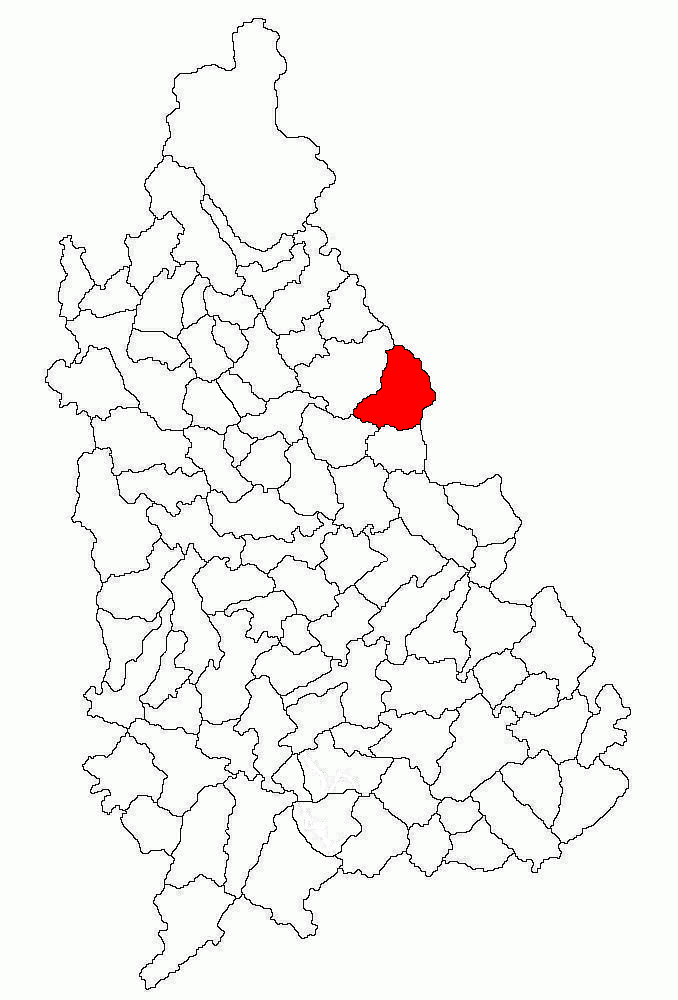 Locator map of Iedera Commune in Dâmbovița County, Romania